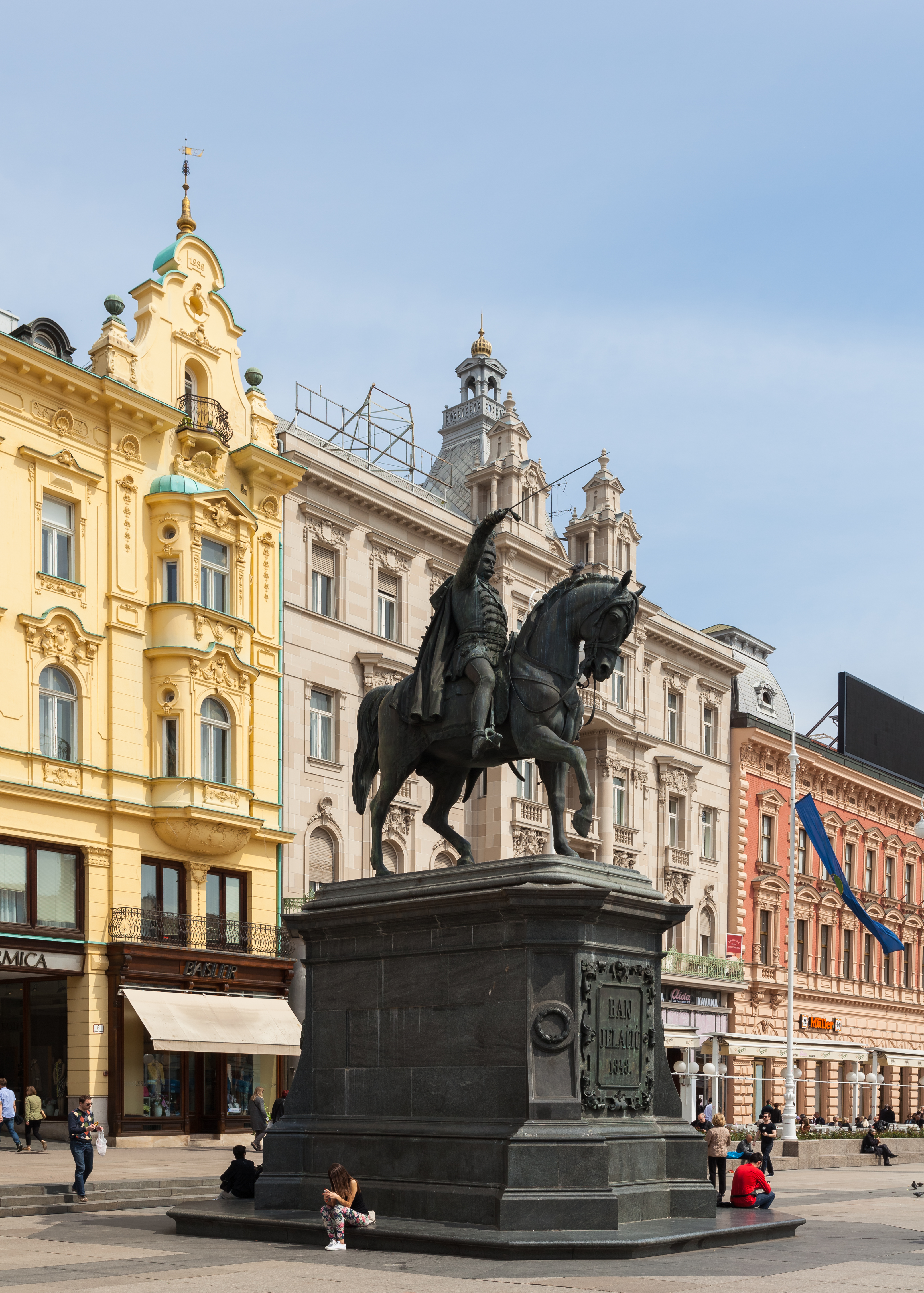 Ban Jelačić statue, Zagreb, Croatia